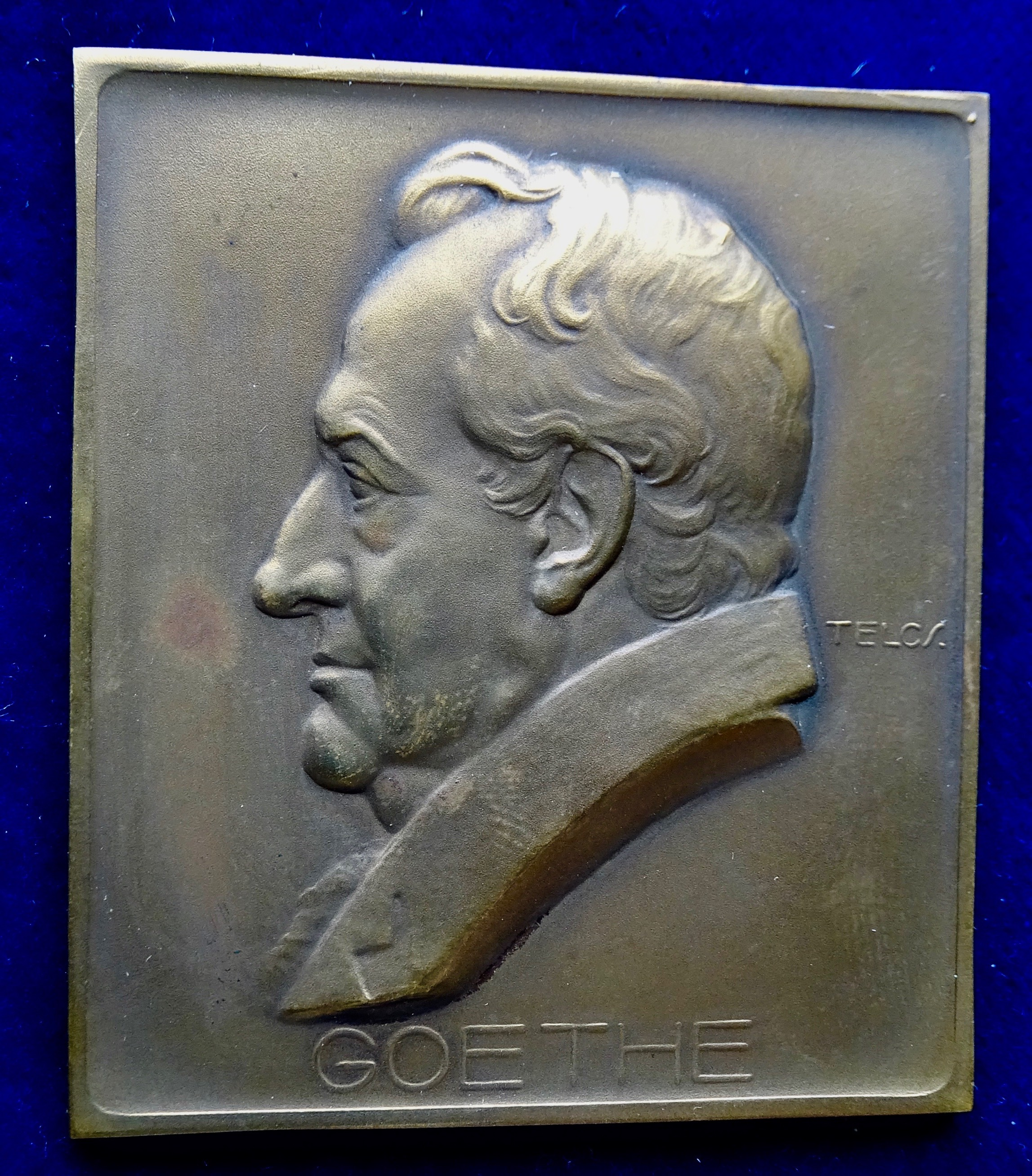 Netherlands, 1924 ND Judaica Plaque Medal Johann Wolfgang von Goethe by Ede Telcs. Bronze medallion 50 x 57 mm Goethe, Johann Wolfgang von 1749 Frankfurt am Main - 1832 Weimar Portrait l. above 1 line: "GOETHE"/ uniface. Förschner -; Huszár- ; Procopius Nr. 6168 Mint: Koninklijke Nederlandsche Edelmetaal Bedrijven Van Kempen, Begeer en Vos. "KONINKLUKE BEGEER VOORSCHOTEN" Medallist: Ede Telcs, Hungarian Jew, 1872 Baja (Hungary) - 1948 Budapest Condition: UNCIRCULATED in EXTEMELY FINE original Art Deco box of the issuing Dutch mint.